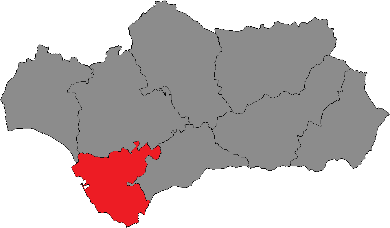 Andalusian Parliament district of Cádiz.